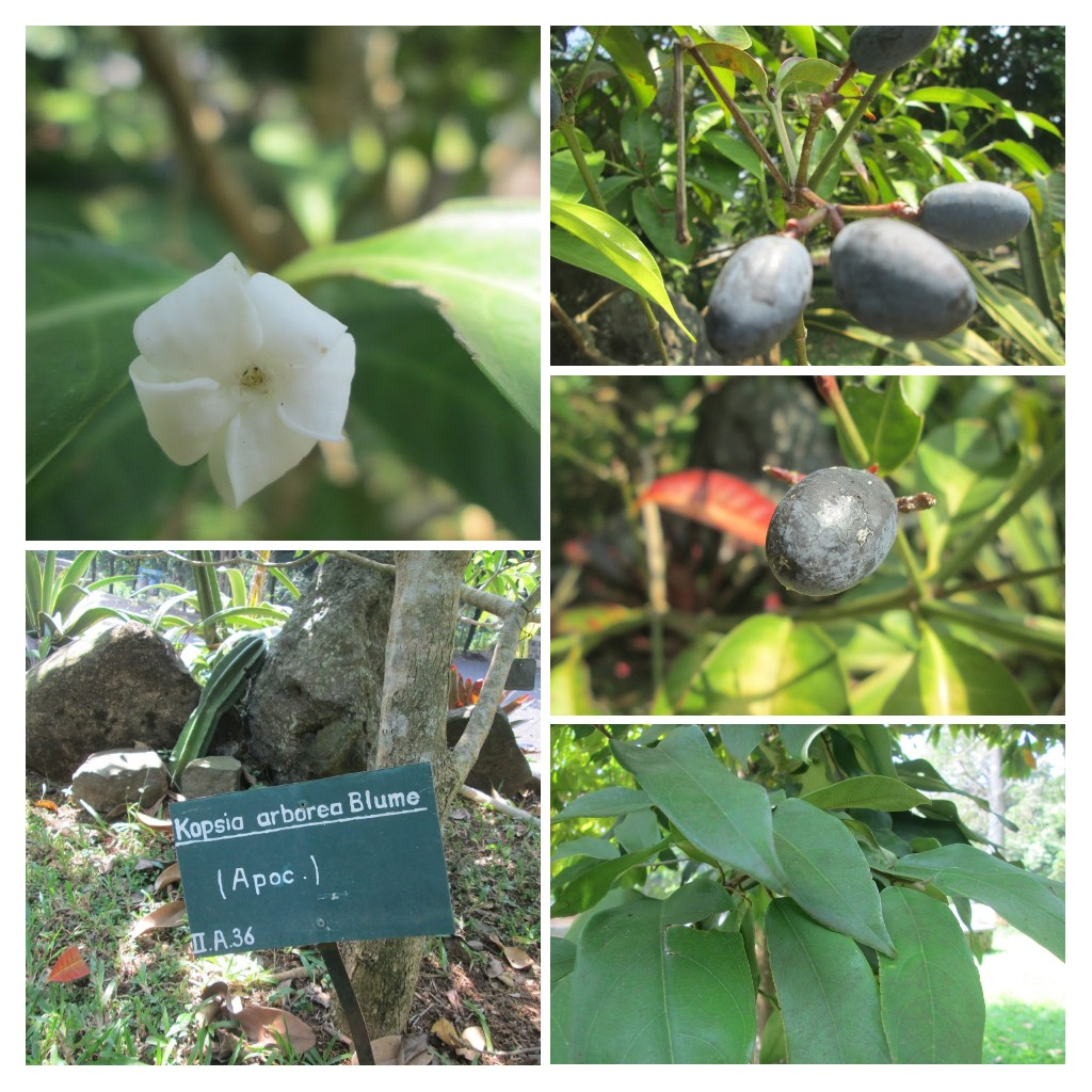 Kopsia arborea in Taman Kuning